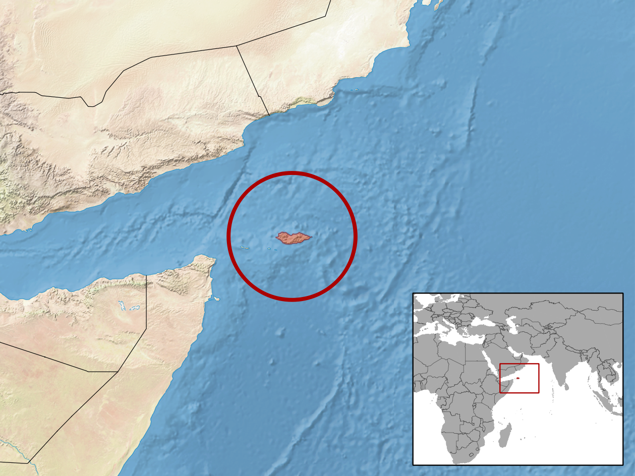 geographic distribution of Hakaria simonyi